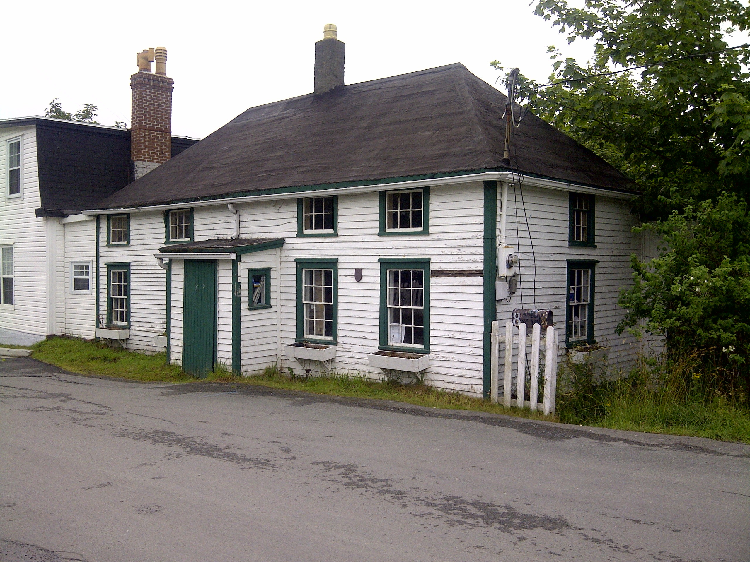 Mallard Cottage (circa 1820) in the Quidi Vidi neighbourhood of St. John's, Newfoundland and Labrador, Canada.